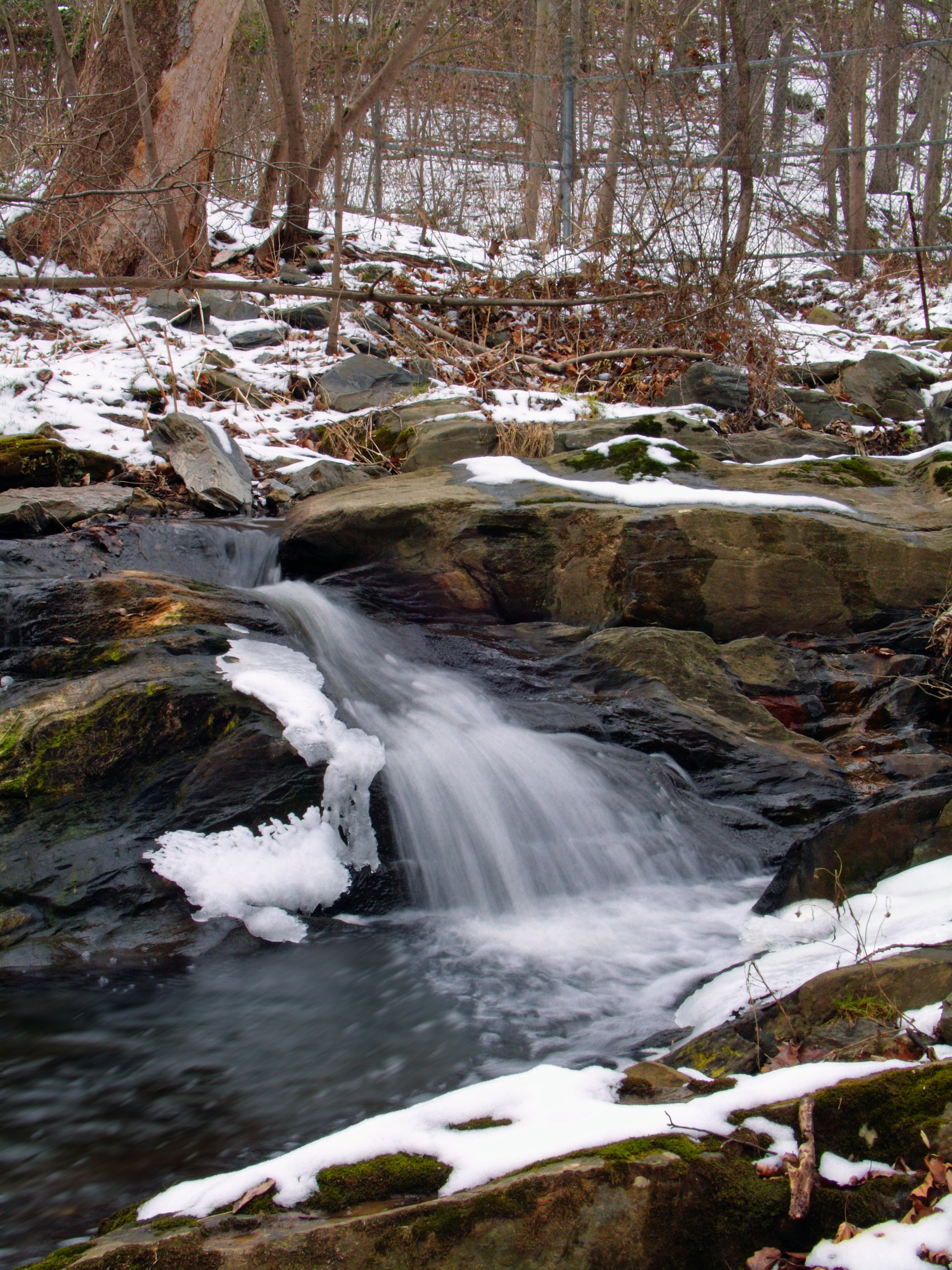 Small waterfall on Mann's Run, Lancaster County, as seen from the Turkey Hill Trail. Managed by the Lancaster County Conservancy, the Turkey Hill Trail traverses the steep River Hills region south of Washington Boro.